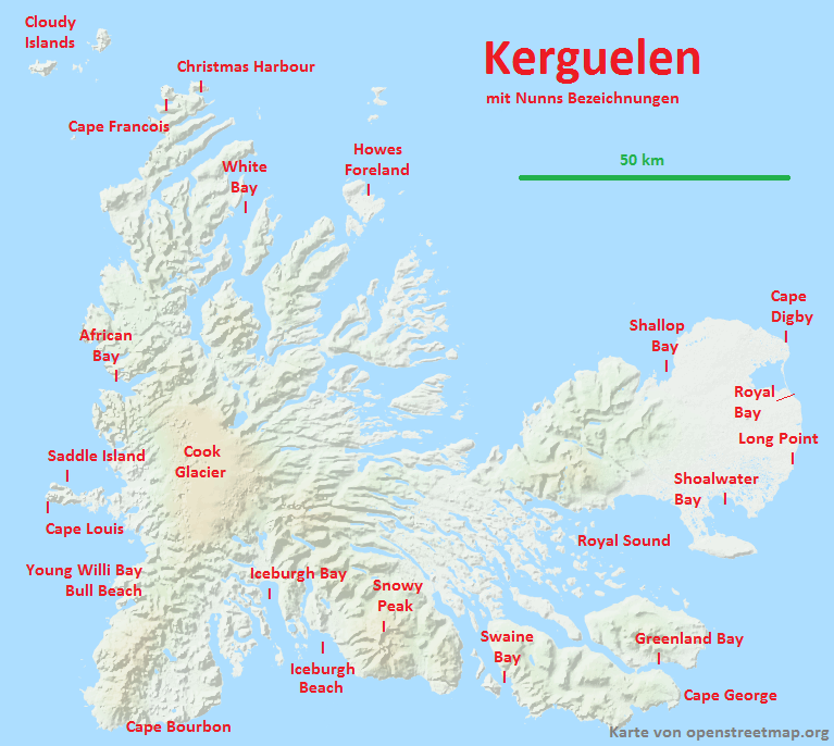 Map of the Kerguelen Islands German and with nomenclature of Nunns book